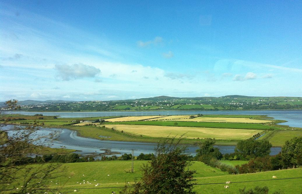 A view of the mouth of River Swilly at Lough Swilly, Letterkenny, Co Donegal